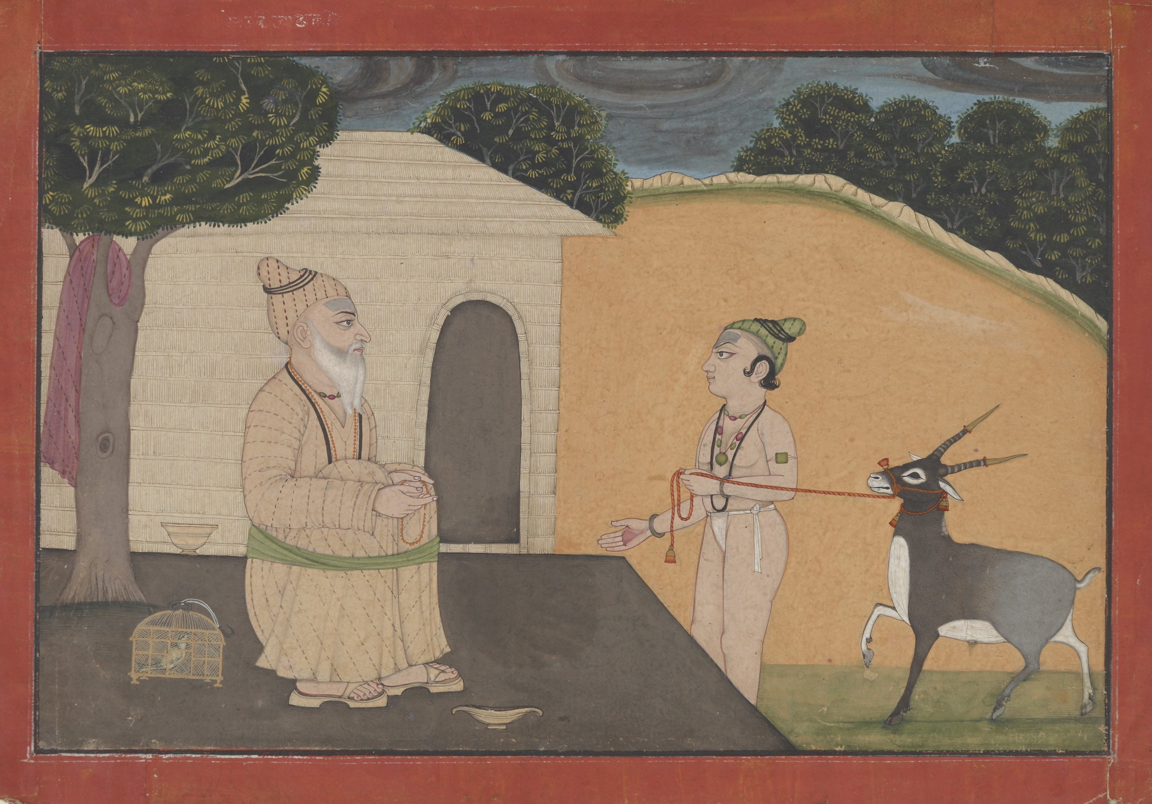 Guru and Disciple ca. 1740 Opaque watercolor on paper. H: 18.5 W: 28.5 cm Basohli or Mankot, Punjab Hills, India Purchase F2006.4